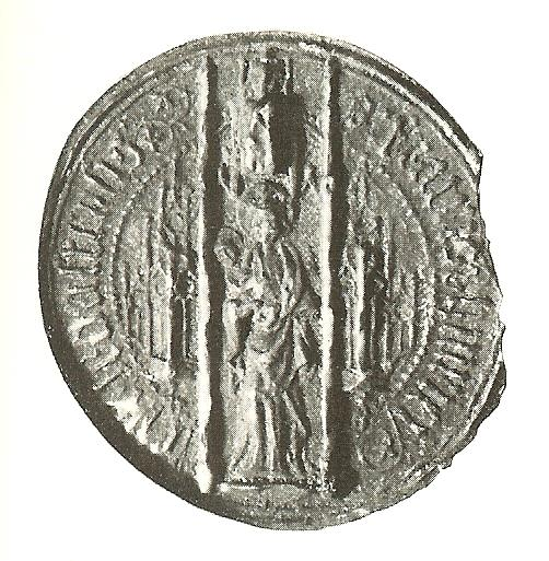 Seal of Heinrich Woggersin OESA, Titular Bishop of Sebaste, auxiliary bishop in Cammin and Schwerin